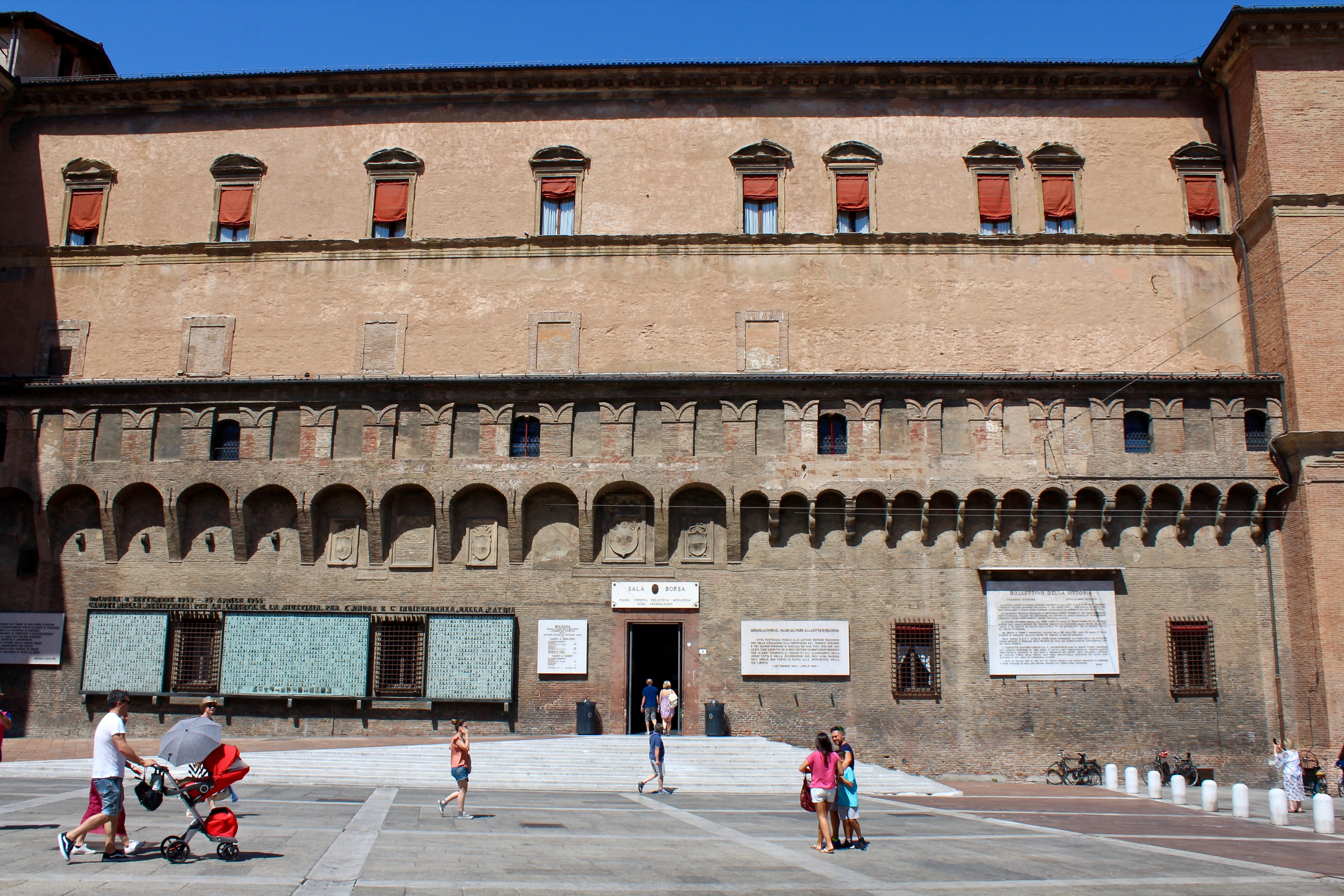 Bologna's Sala Borsa public library in July 2017